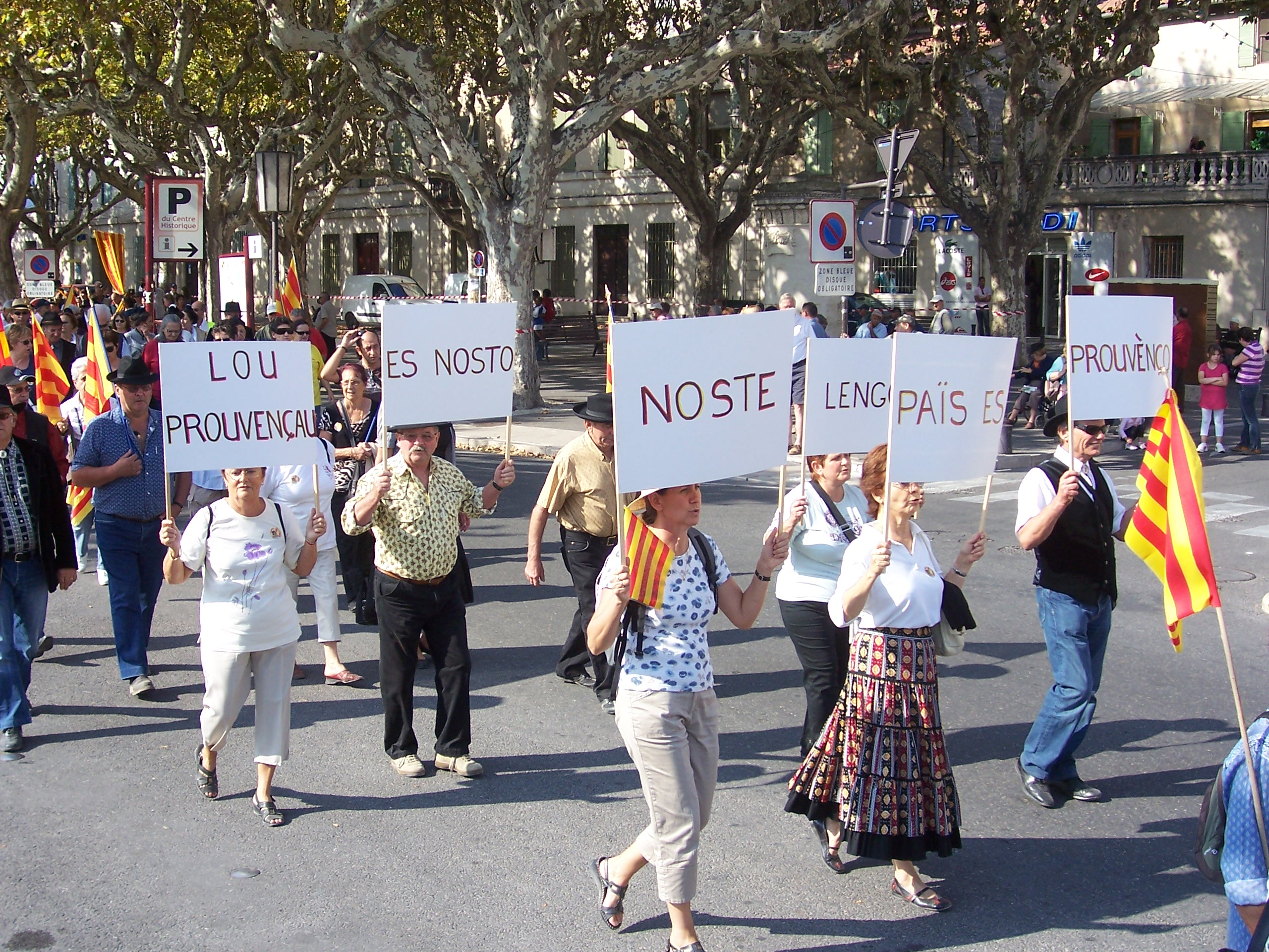 Demonstration for "the langues d'oc / plurality of occitans languages" and against simple "occitan". The demonstrators want the State to recognize Provençal language, Béarnais and Gascon languages, etc.